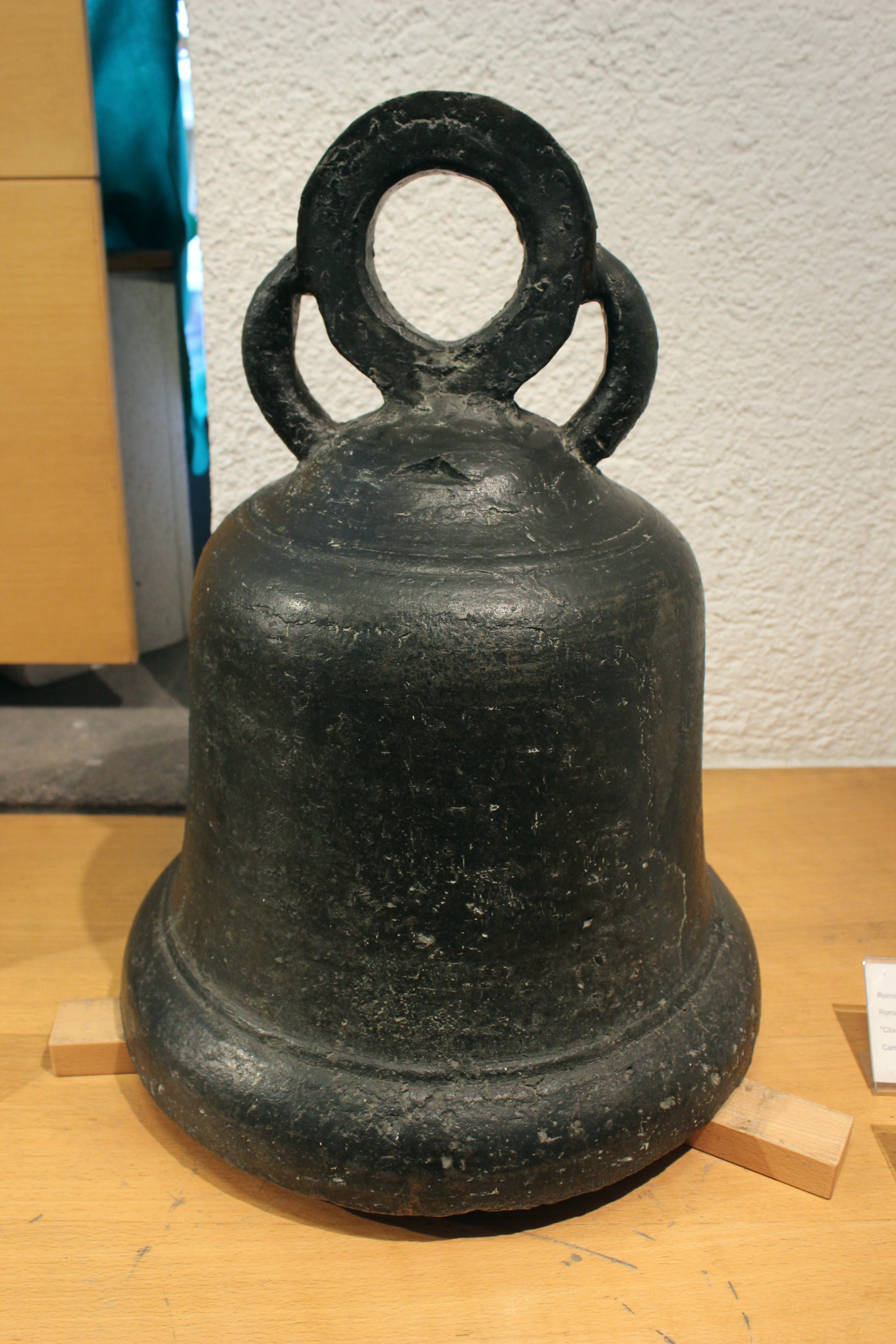 11th century bell originally from Hachen, Germany, now bell museum Innsbruck, Austria.